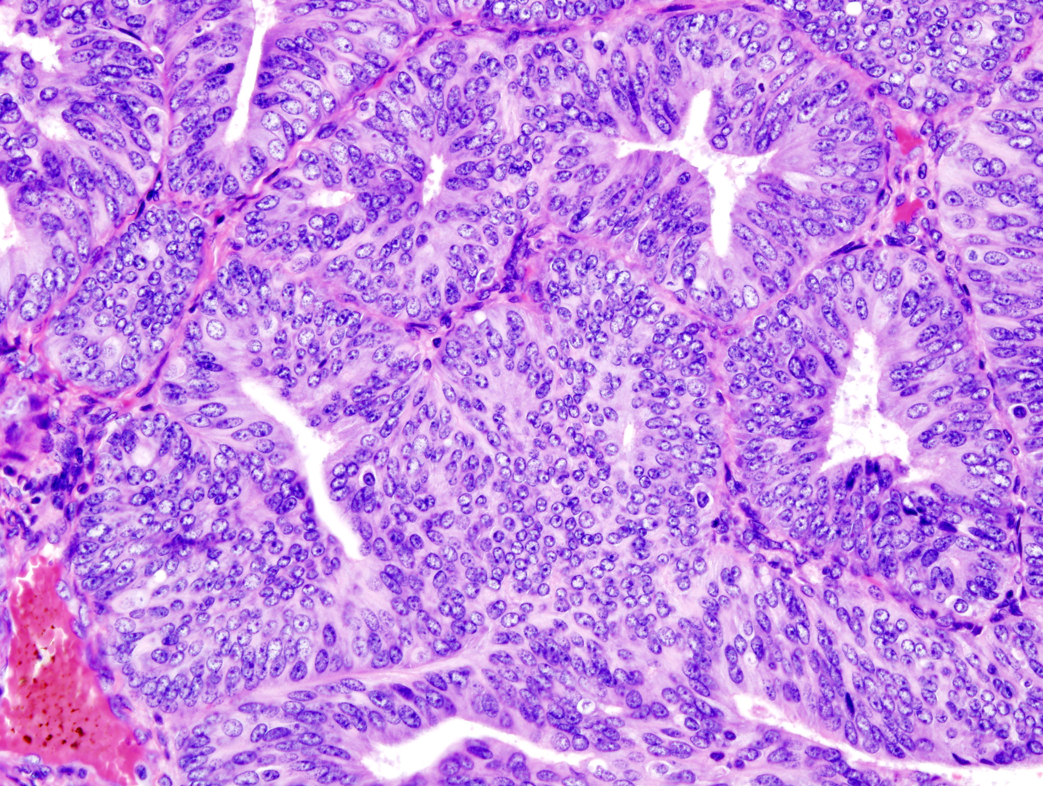 Histopathologic representation of endometrioid adenocarcinoma demonstrated in endometrial biopsy. Hematoxylin-eosin stain.